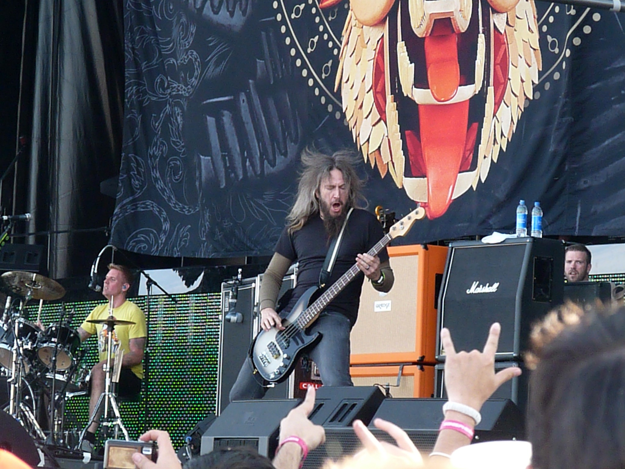 Mastodon performing live at Sonisphere 2012 in Getafe, Madrid.